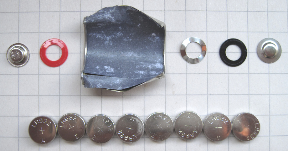 A fully opened and laid out A23 battery. Showing terminals, insulating washers, case and 8 1.5V LR932 alkaline button cells.